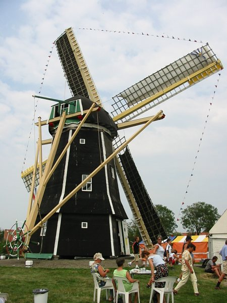 Ground sailor windmill in Aagtekerke, Zeeland, Netherlands.